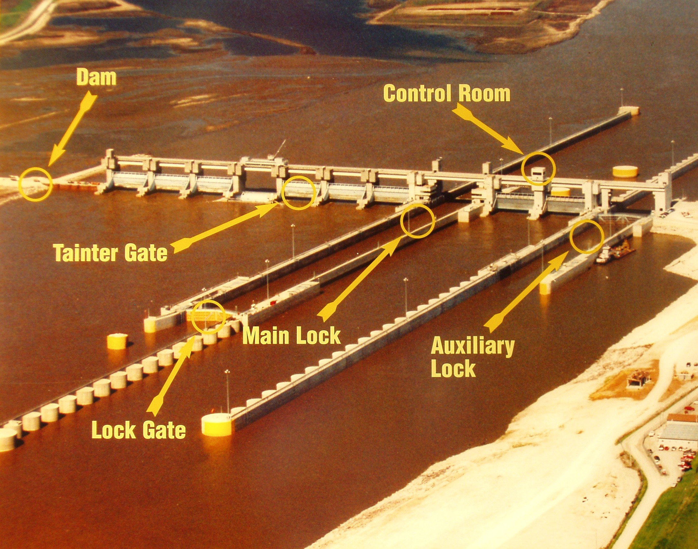 Aerial view of the Melvin Price Locks and Dam, East Alton, Illinois, USA, with explanatory labels.